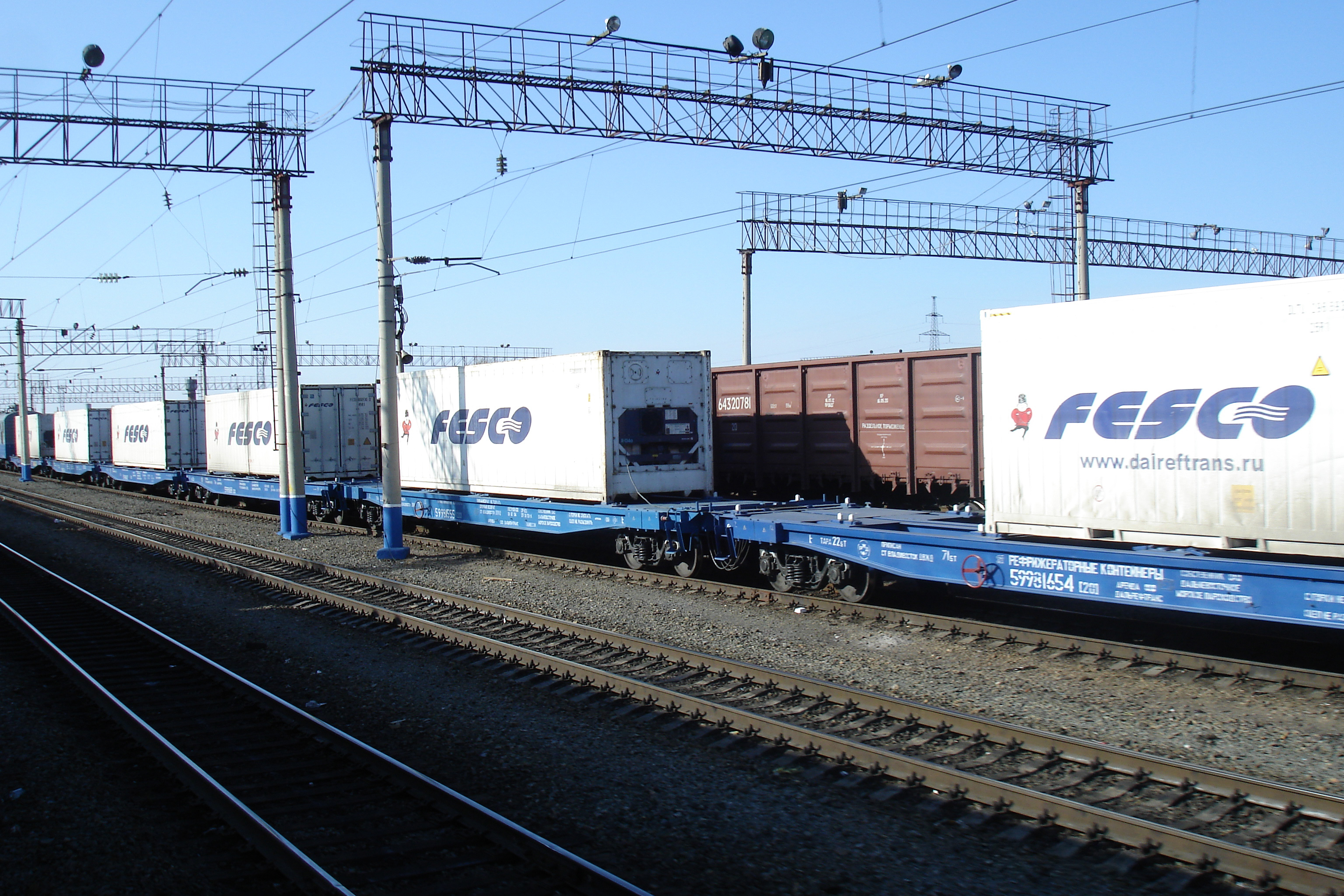 Container-refrigerator on good cars (Belogorsk-2 station)